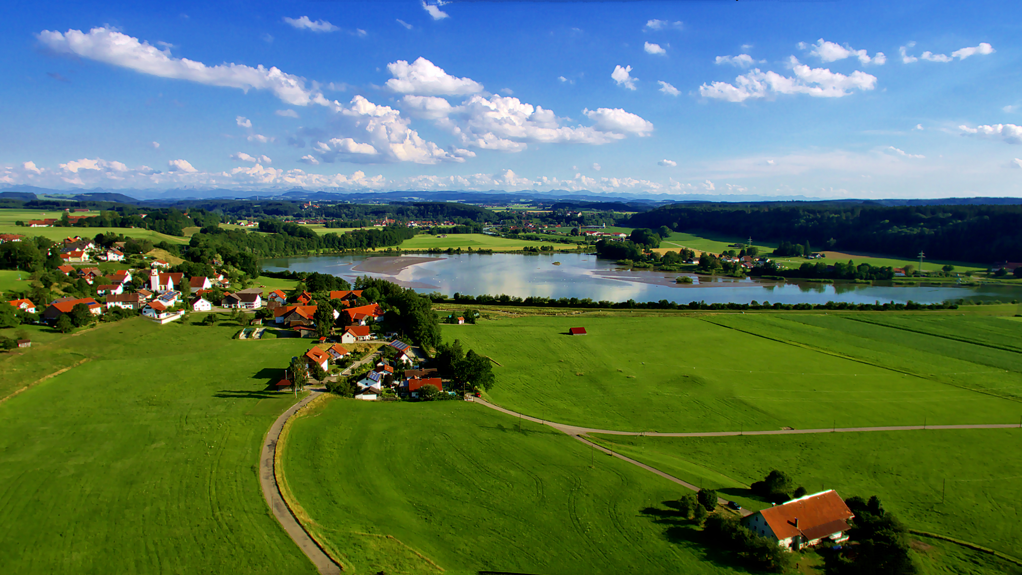 river Iller Kardorf village and reservoir